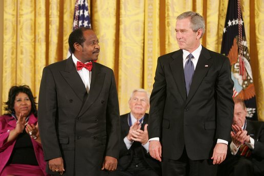 President George W. Bush and Paul Rusesabagina during the presentation of the Presidential Medal of Freedom in the East Room, November 9, 2005. Depicted people: Paul Rusesabagina and George W. Bush Original description: President George W. Bush exchanges a glance with Paul Rusesabagina during the presentation of the Presidential Medal of Freedom in the East Room Wednesday, Nov. 9, 2005. Paul Rusesabagina demonstrated remarkable courage and compassion in the face of genocidal terror. During the Rwandan genocide in 1994, he risked his own life to shelter more than 1,000 fellow Rwandans targeted for murder. White House photo by Paul Morse